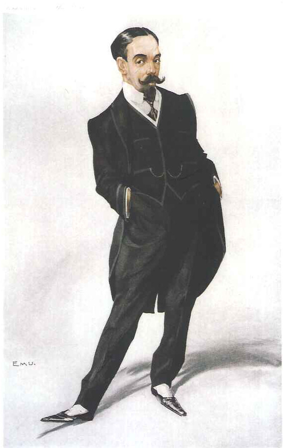 caricature of Thomas Beecham, dated 1910